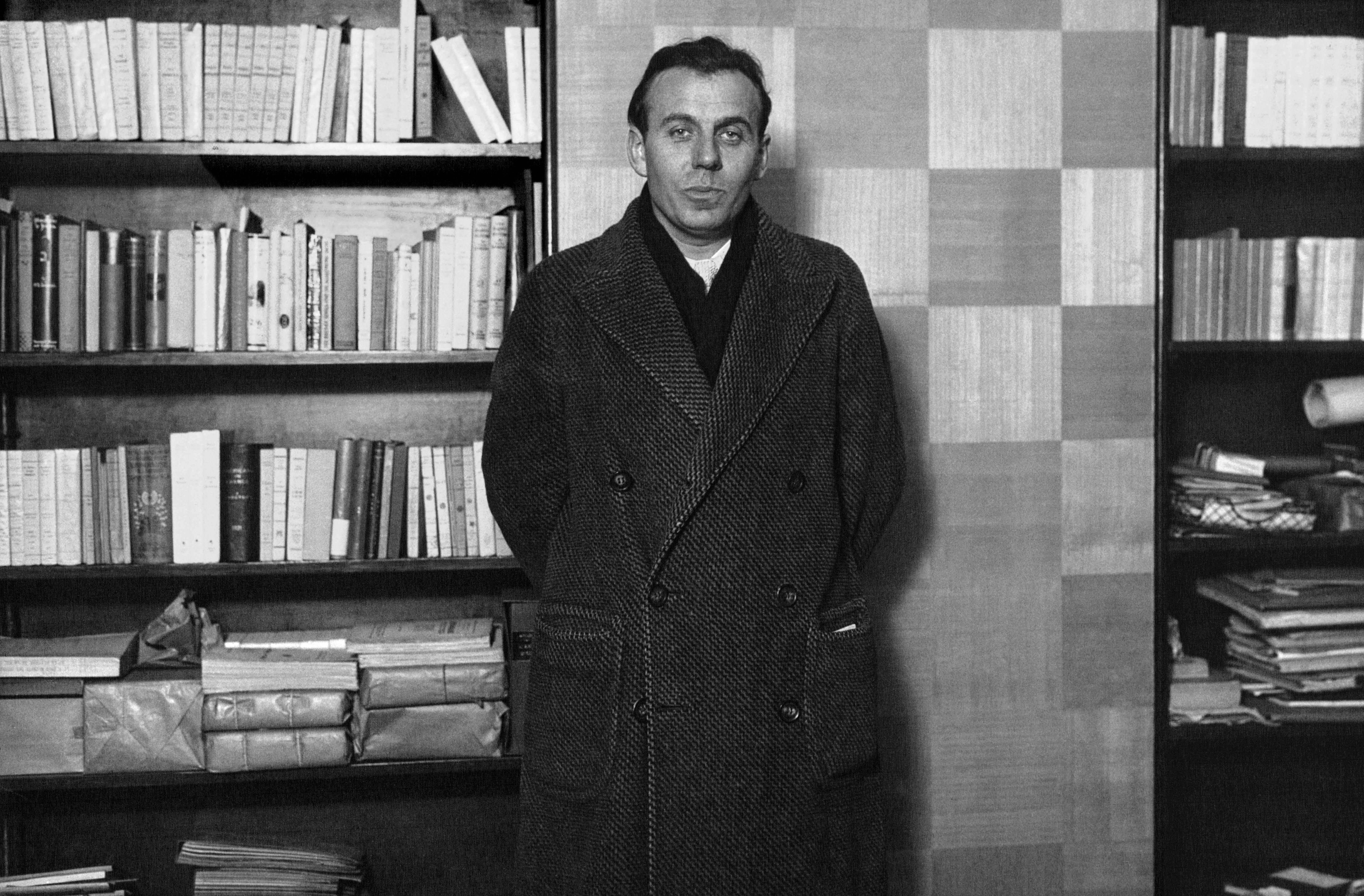 FLouis-Ferdinand Céline (1886-1958), French writer in 1932, the year he won the Renaudot prize for his novel Journey to the End of the Night. (Cropped print.)